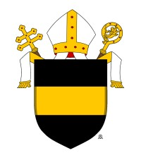 Coat of arms of Archdiocese of Prague, Czech Republic